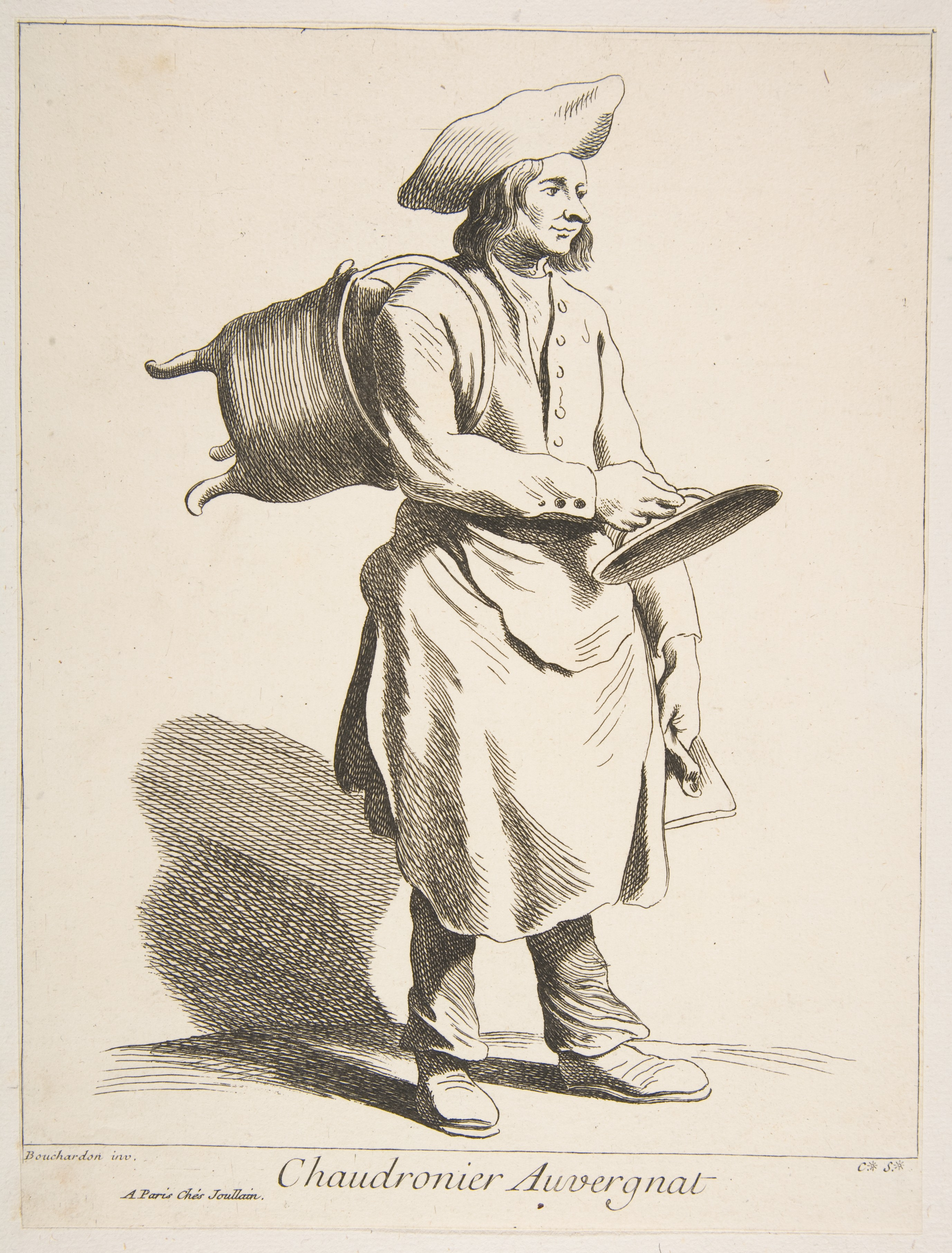 Coppersmith from Auvergne; tinker; man, full length, turned to the right, holding a lid in each hand, and carrying a cauldron over his shoulder.